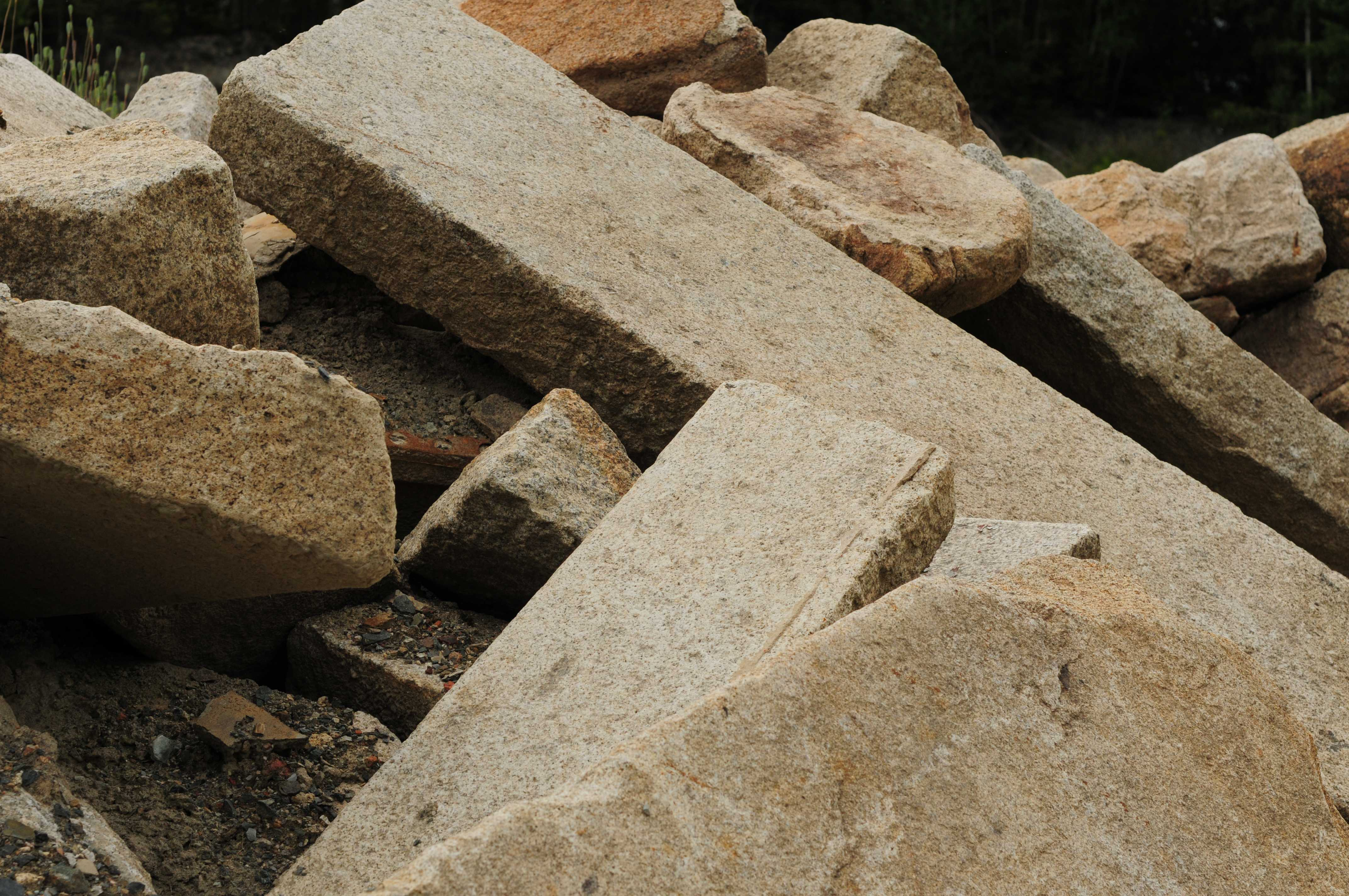 wildly deposited granite treads (Western Saxony)